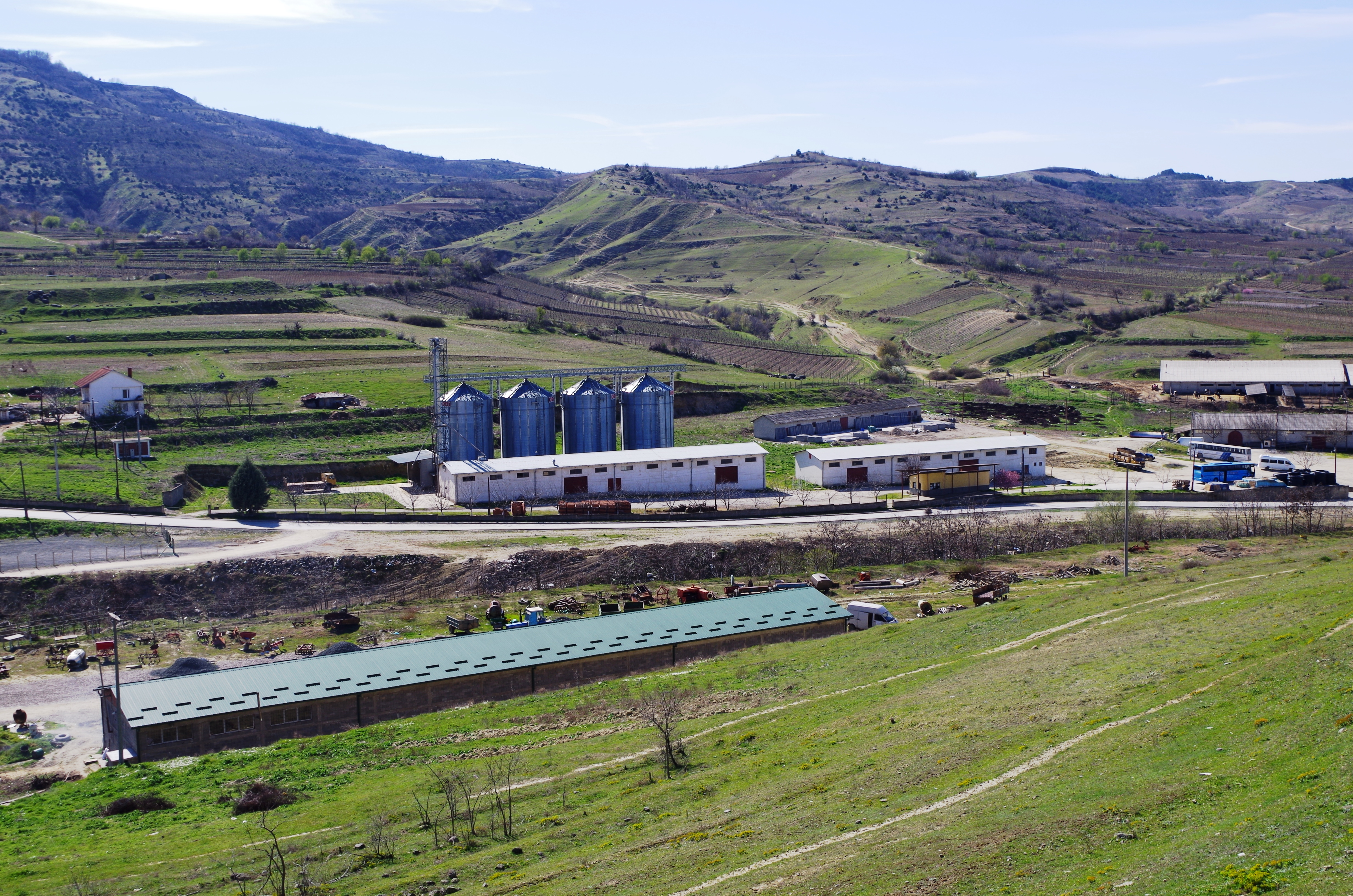 Winery "Venec" in the village Dolni Disan